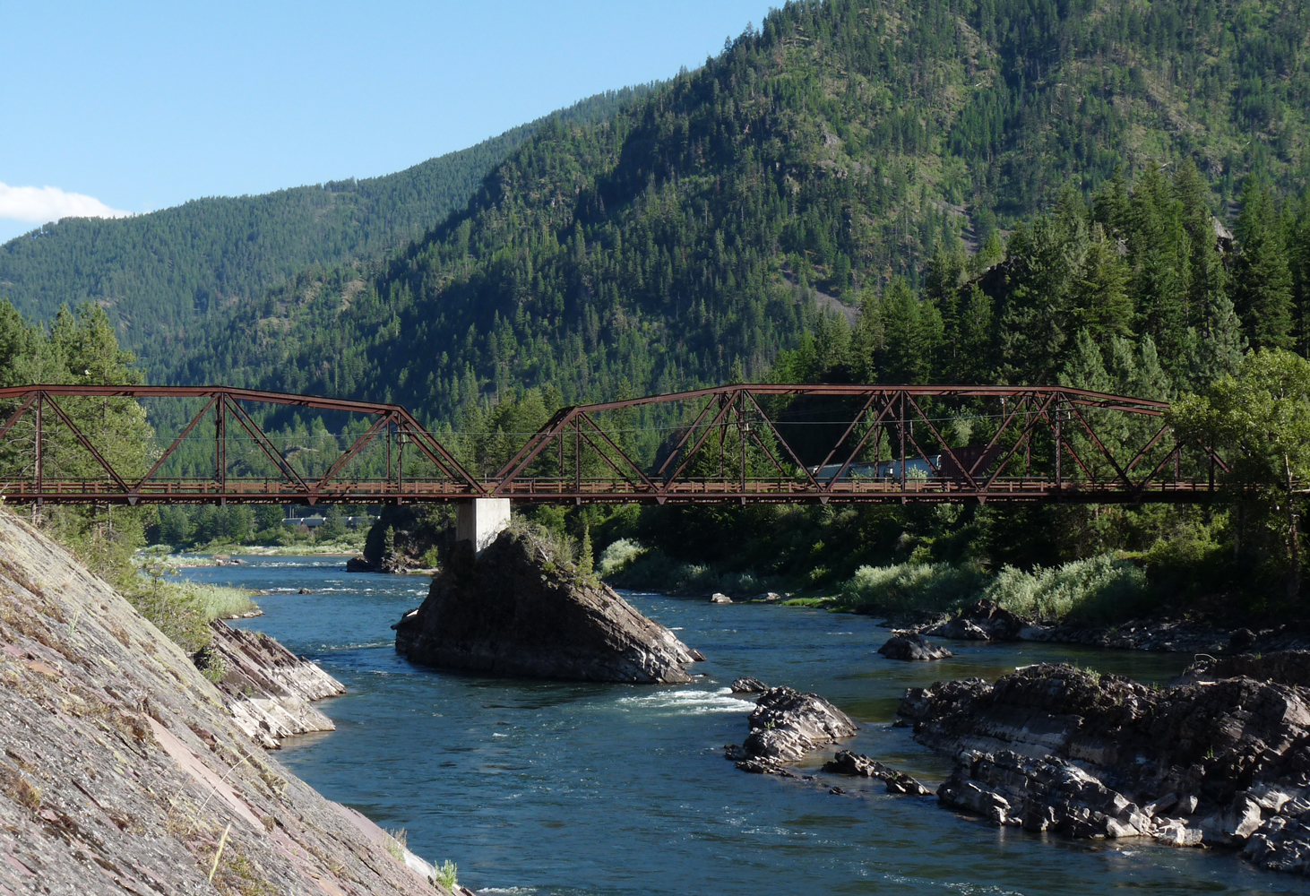 Natural Pier Bridge crossing the Clark Fork River, near Alberton, Mineral County, Montana viewed from downstream.